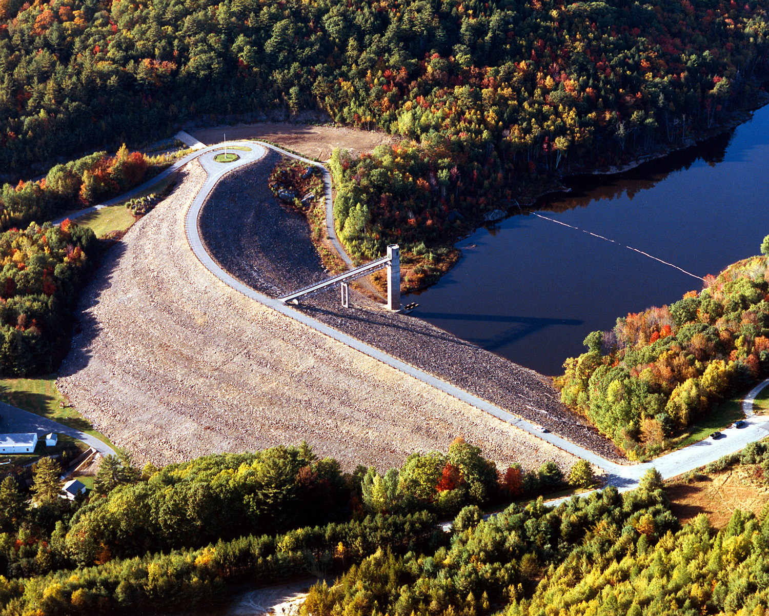 Otter Brook Lake and Dam on Otter Brook near the town of Keene in Chesire County, New Hampshire, USA. The dam was constructed by the U.S. Army Corps of Engineers for flood control.